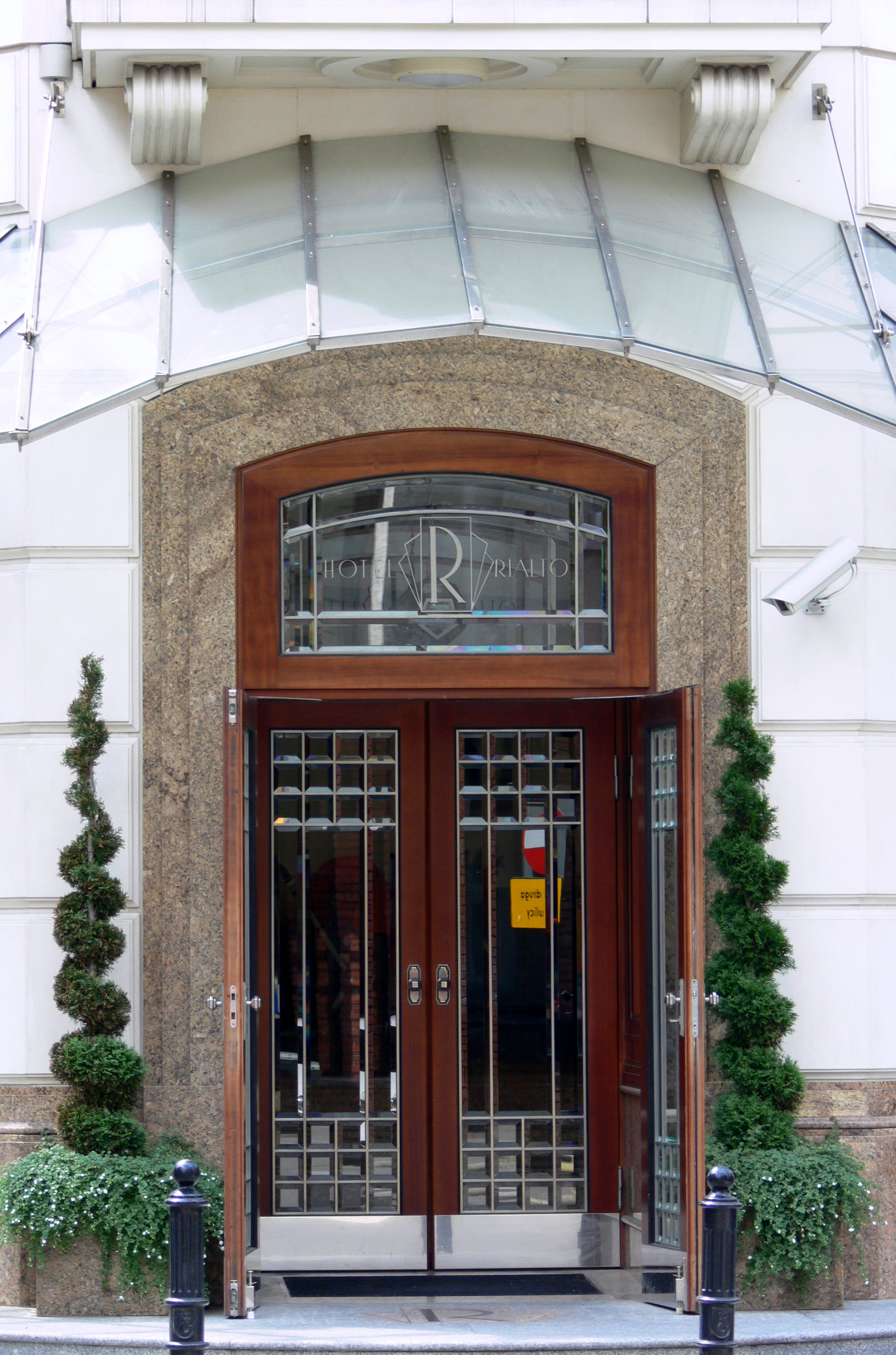 Entrance to the Hotel Rialto in Warsaw